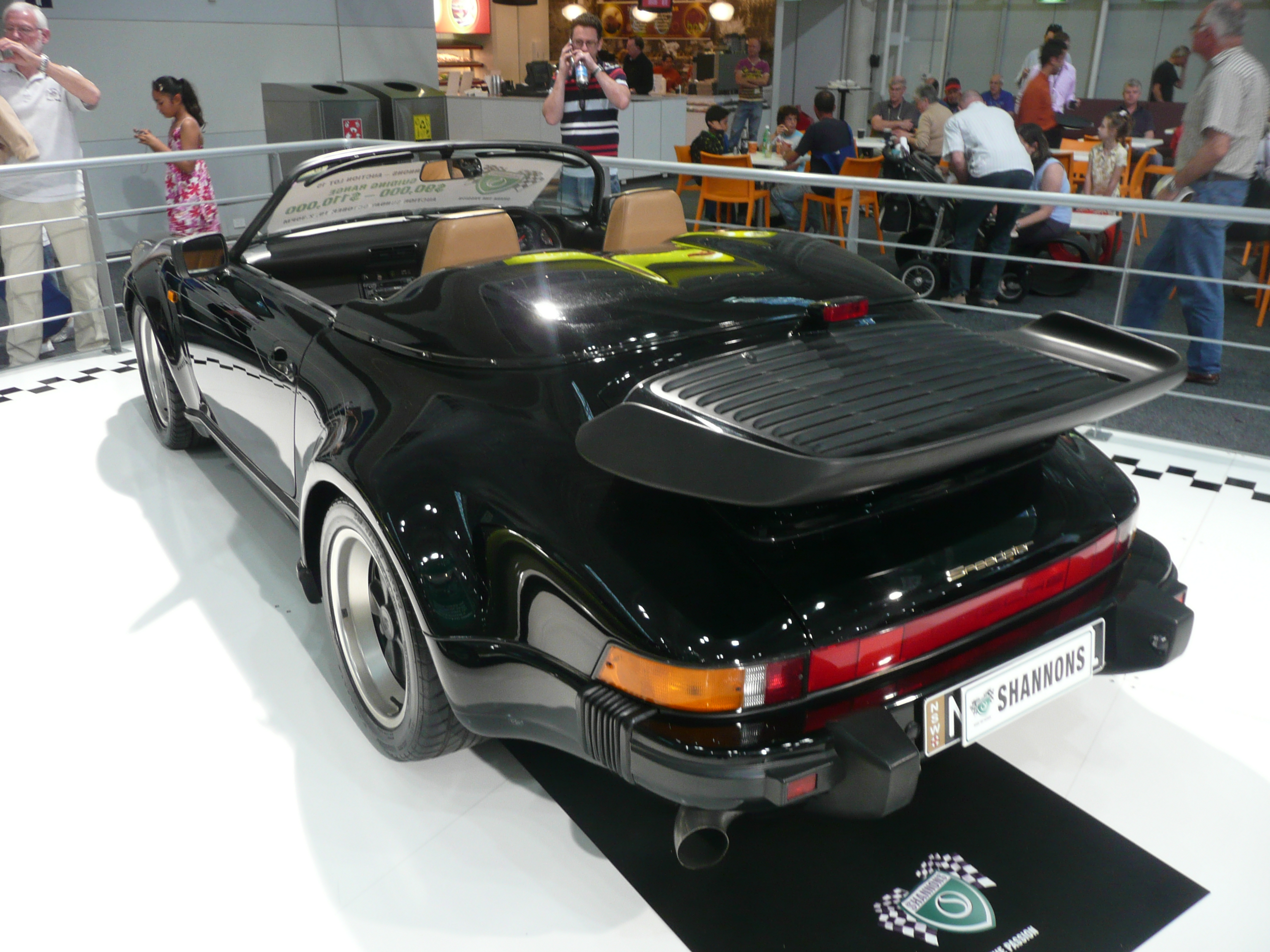 1989 Porsche 911 (Wide Body) Speedster convertible. Photographed at the 2008 Australian International Motor Show, Sydney, New South Wales, Australia.